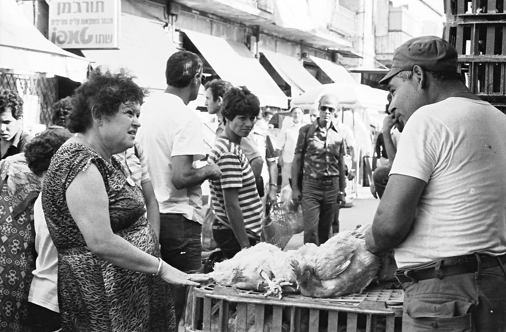 Jerusalem - Mahane Yehuda - Jewish holidays : Kapparot.